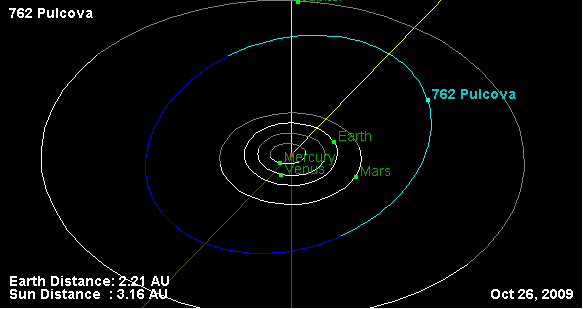 762 Pulkova orbit